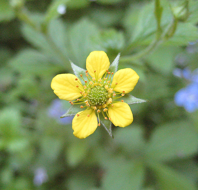 Wood Avens, or Herb Bennet Botanical name, Geum urbanum. A perennial plant of the Rose family, pictured here growing alongside a woodland track.